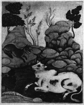 Illustration of story from Panchatantra. The first meeting of the jackal and the bull (Damanaka and Sanjivaka). "One of the Indian designs which adorn the fine Persian MS. of the Fables preserved at the British Museum (Add. MS., 18,579)." Downloaded from [1], frontispiece of 1888 Jacobs book.